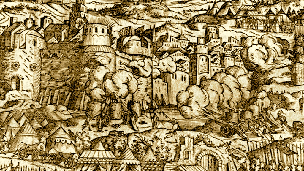 15th century engraving of the Siege of Shkoder